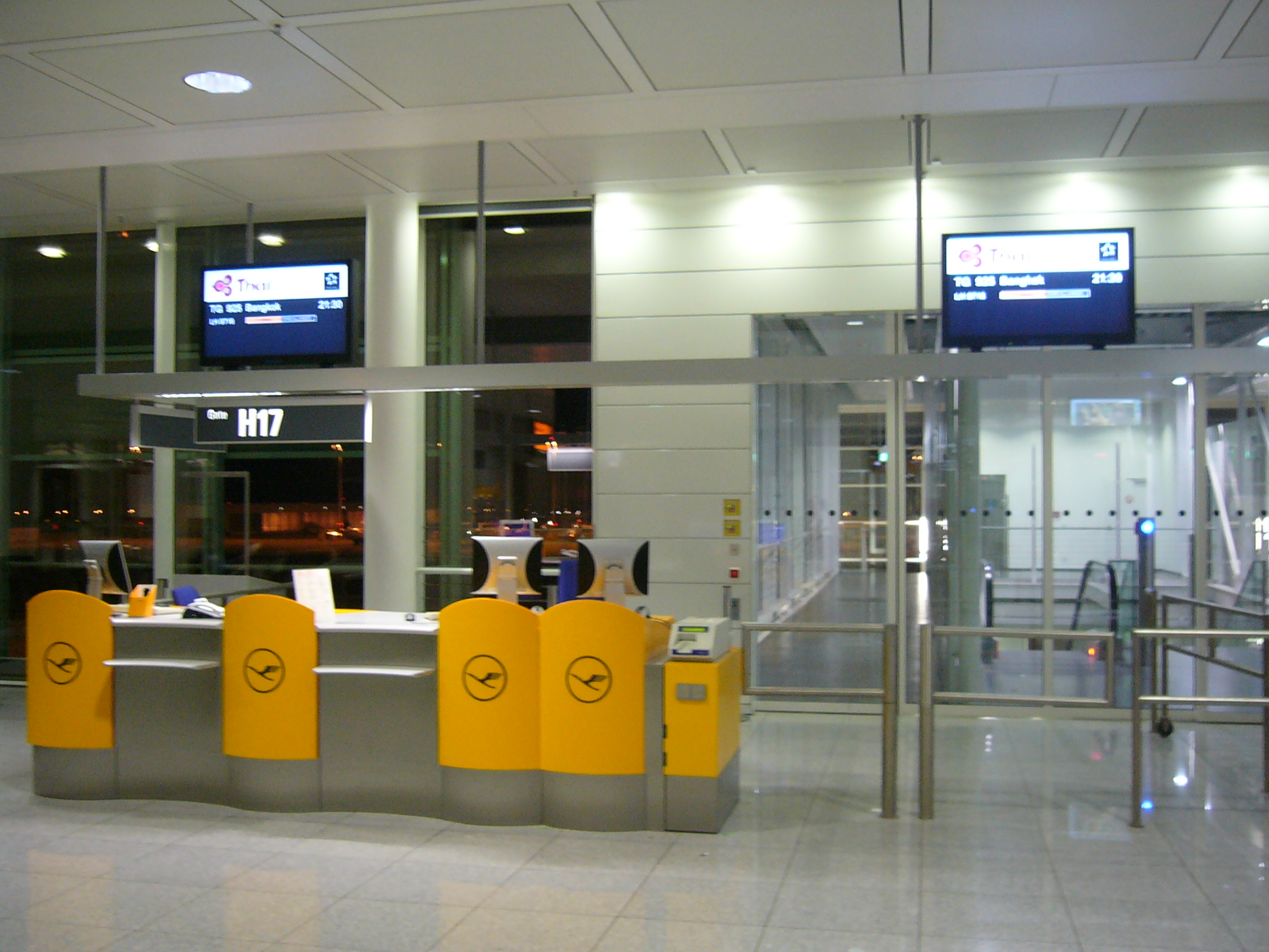 Gate H 17 at Munich Airport serving Thai Airways.